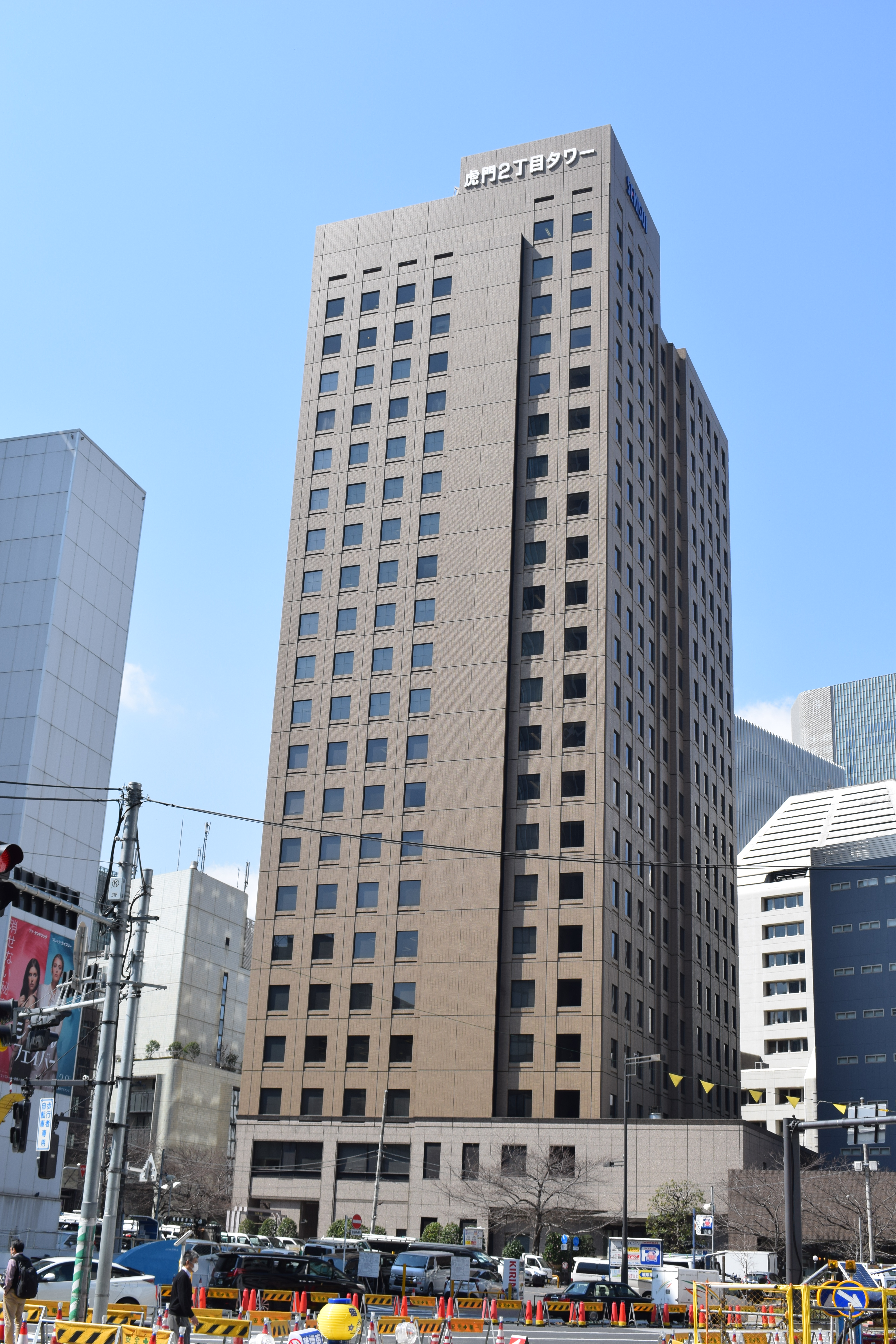 Toranomon 2-chome Tower in Minato-ku, Tokyo